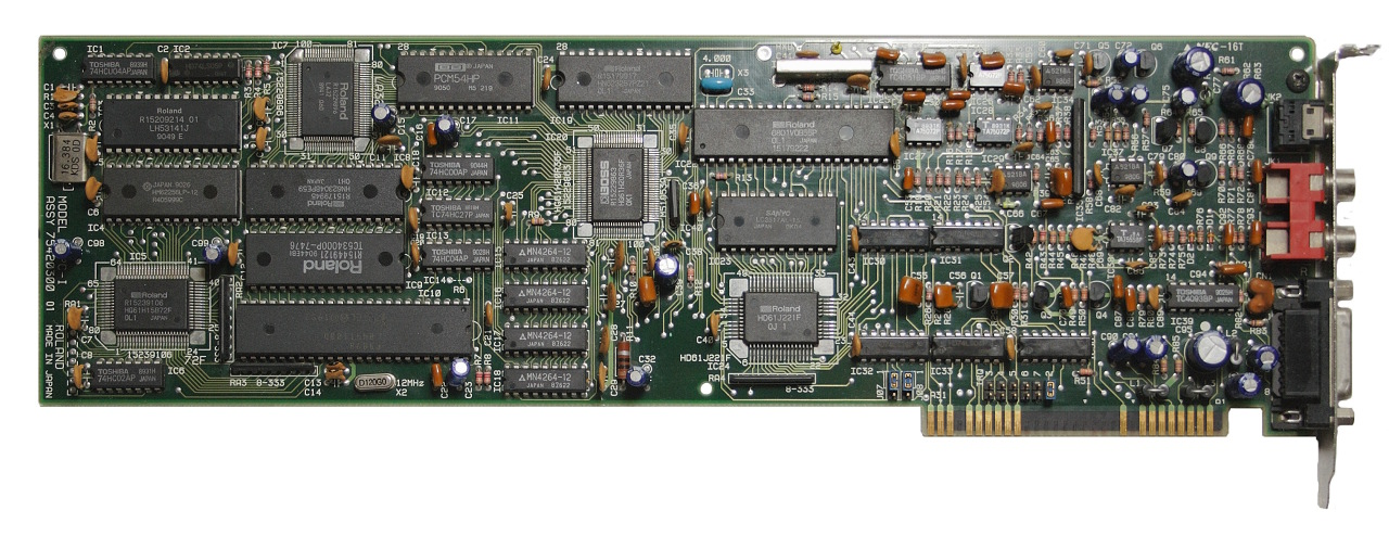 Roland LAPC-I Sound card, the ISA derivate of the external MT-32.